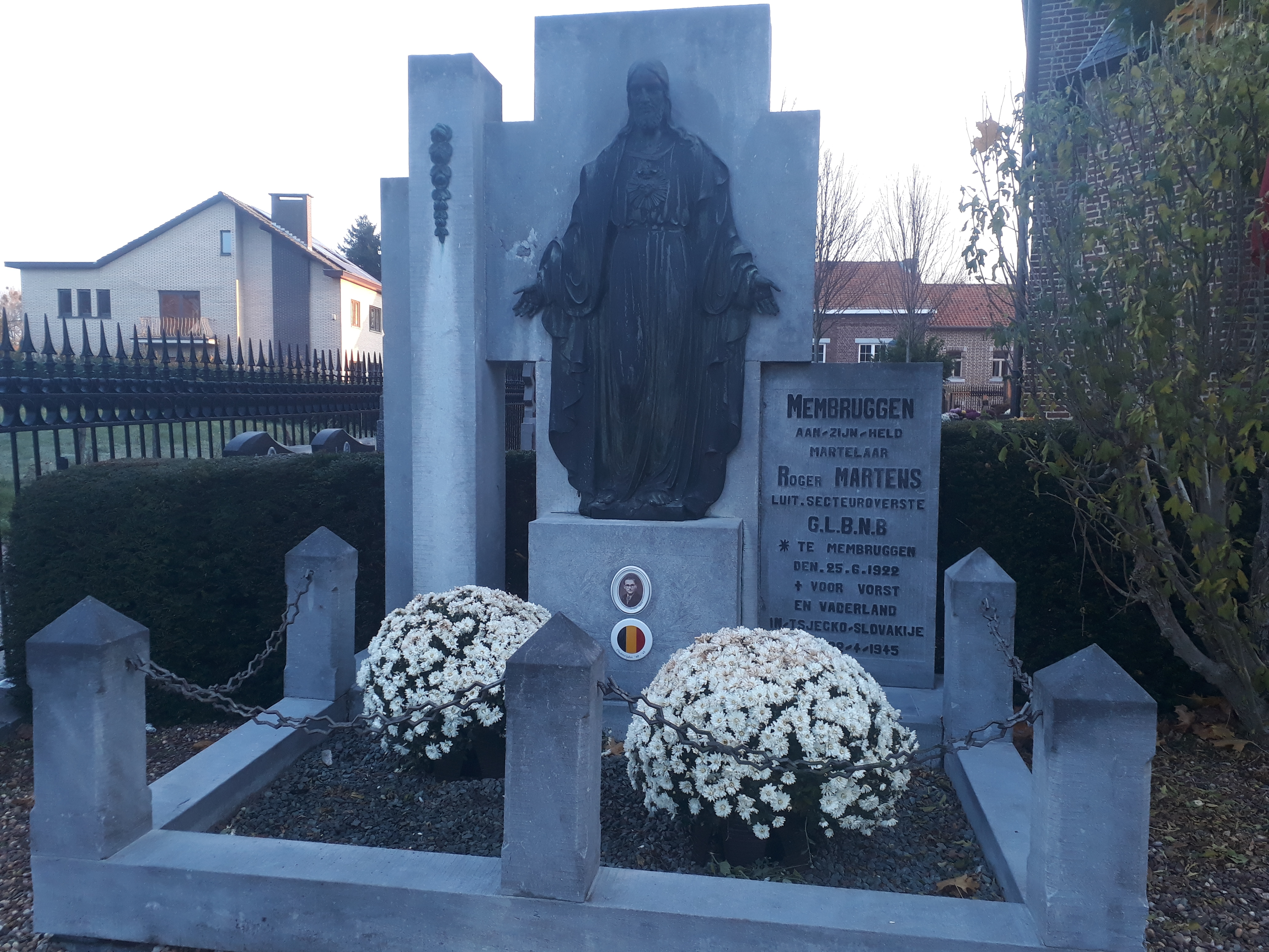 Memorial Membruggen